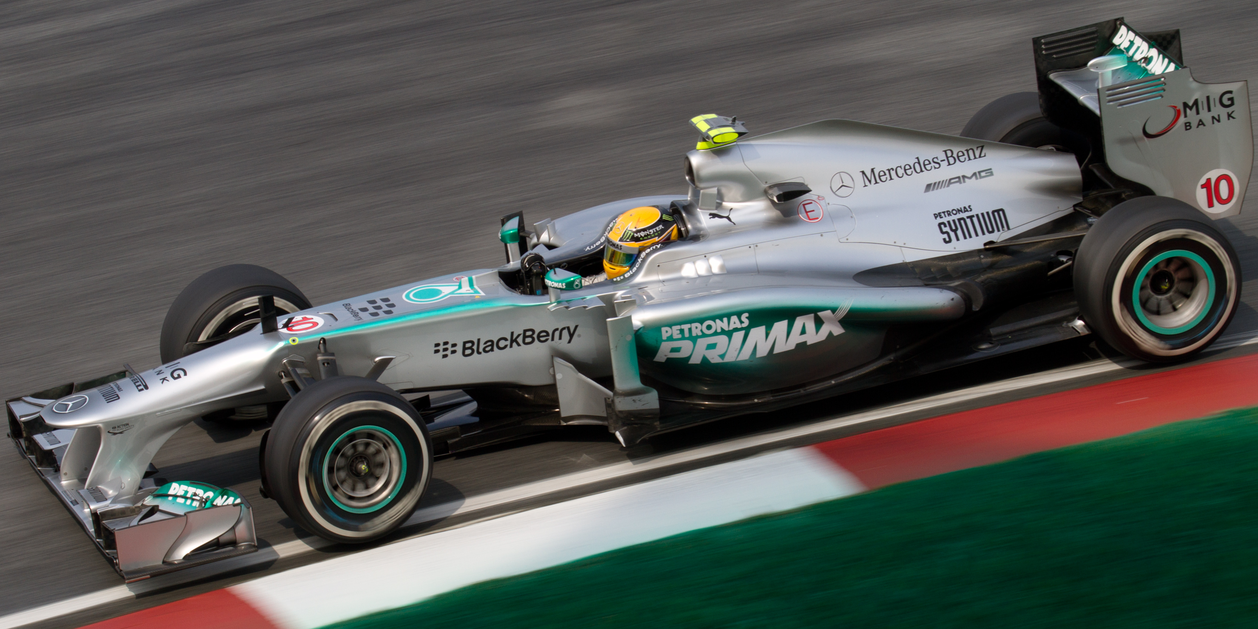 Formula One 2013 Rd.2 Malaysian GP: Lewis Hamilton (Mercedes) during the second practice session on Friday.